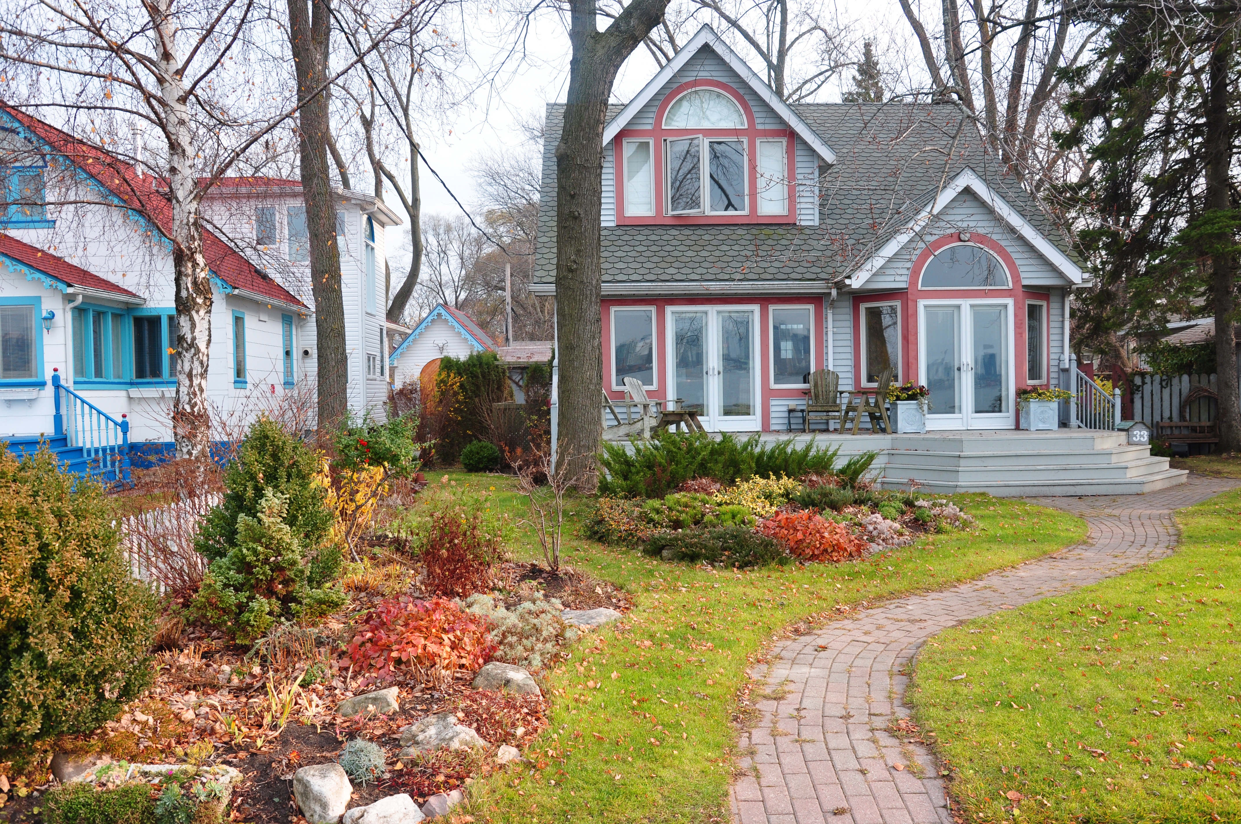 House Toronto Islands Ward's Island